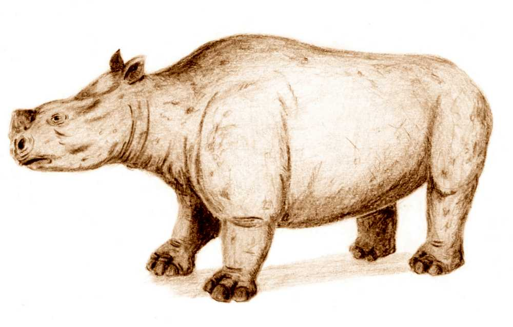 Teleoceras, pencil drawing, based on skeleton [1], and painting by Heinrich Harder [2]. Author:User:ArthurWeasley